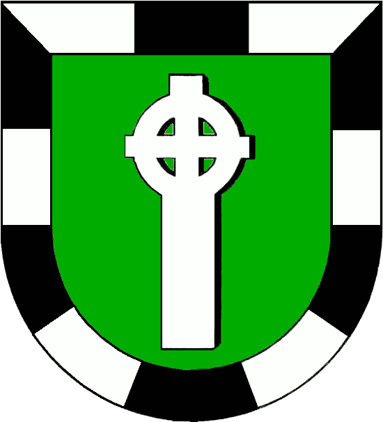 Coat of arms of the municipality Einhaus in Schleswig-Holstein, Germany.